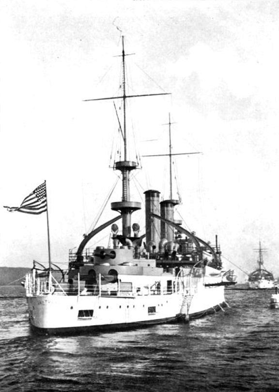 Stern view of the Kentucky (BB-6) in Sydney Harbor, Australia, in late August 1908 during the Great White Fleet. Kearsarge (BB-5) is probably ahead of her. Removed caption read 'From Monograph Copyright, 1906, by Underwood & Underwood, New U.S.A. Battleship "Kentucky."'